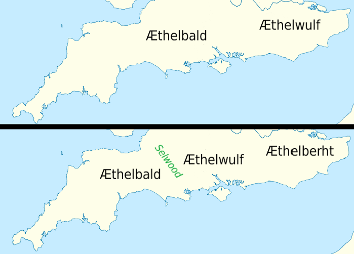 A schematic version of the two possible divisions of Wessex at the end of the reign of Æthelwulf